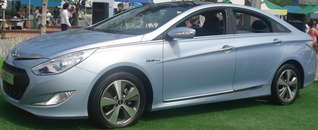 Hyundai Sonata Hybrid